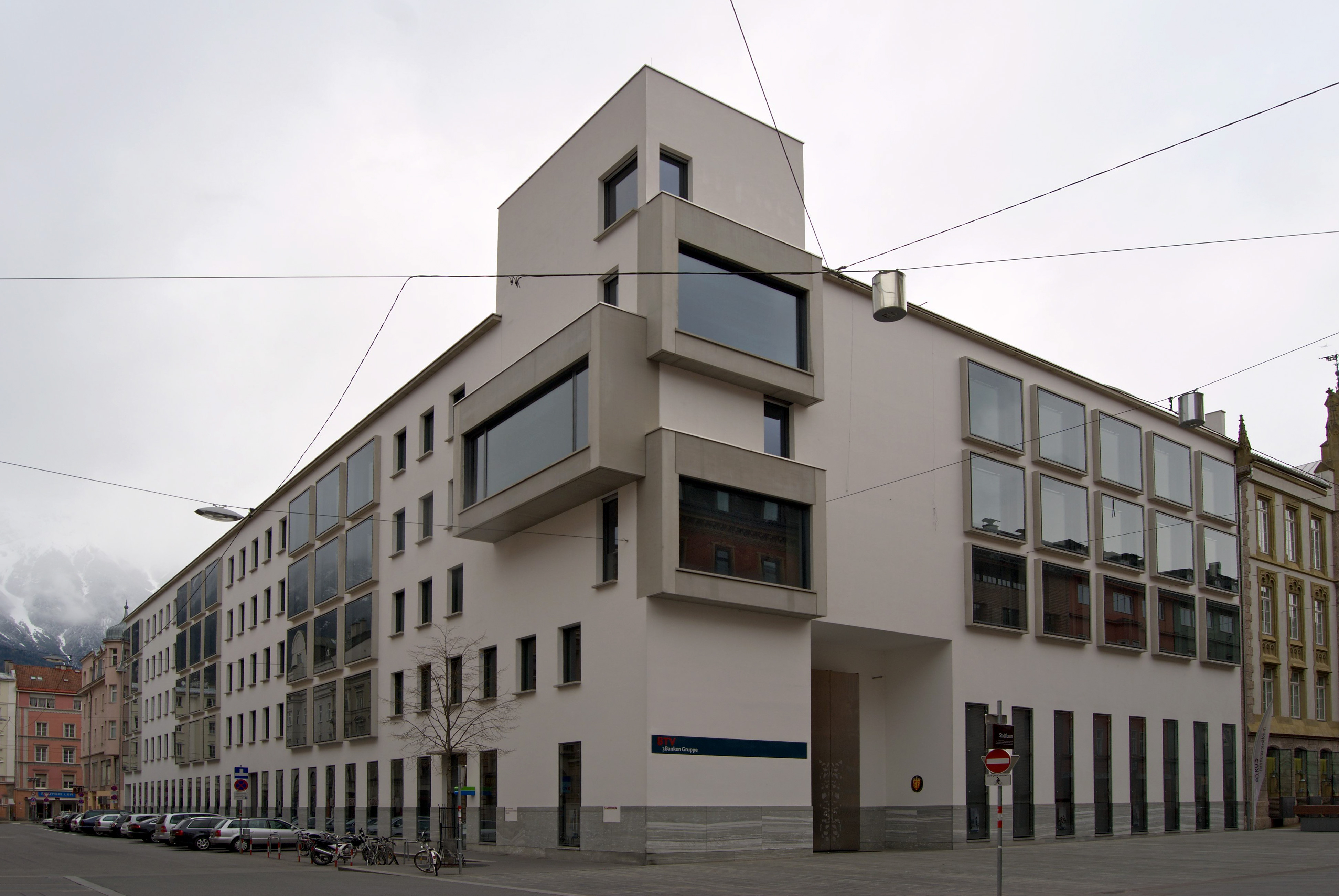 headquarters of Bank für Tirol und Vorarlberg in Innsbruck, Stadtforum